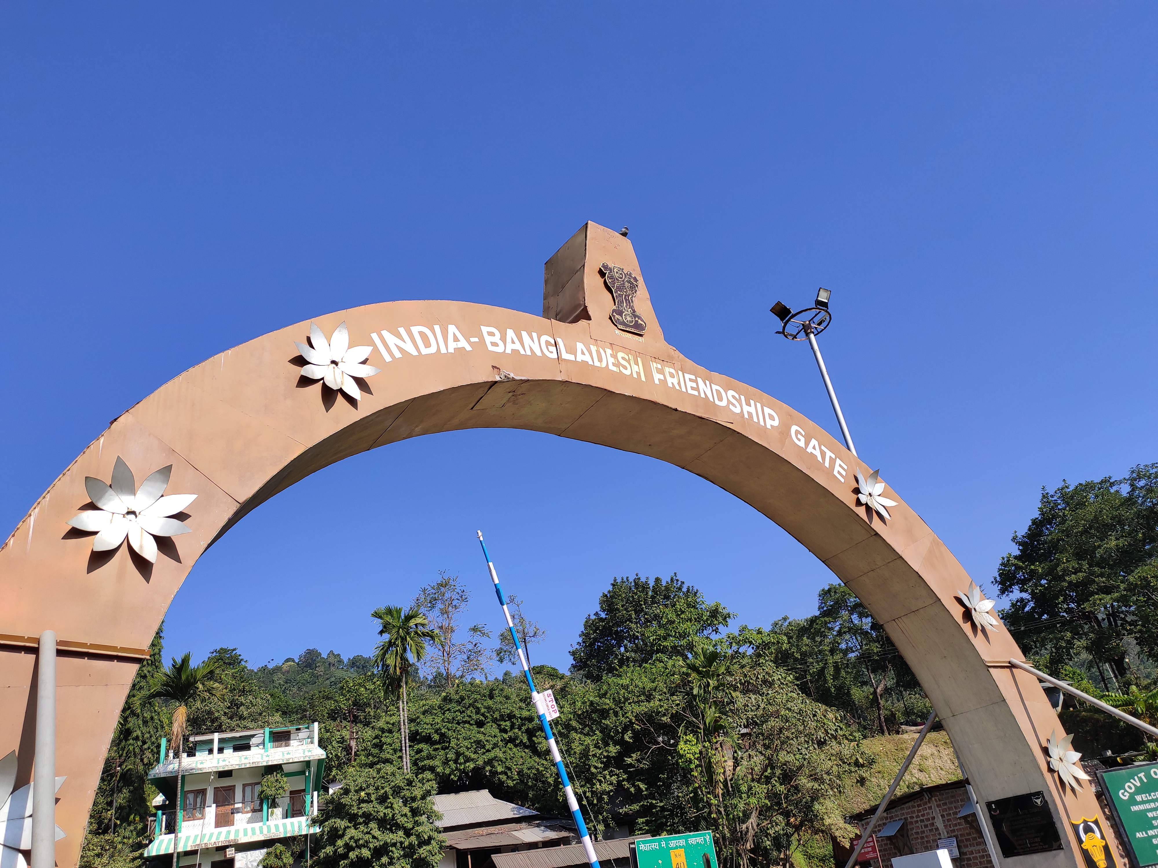 This is the border gate between Tamabil (Bangladesh) and Dawki (Sylhet).